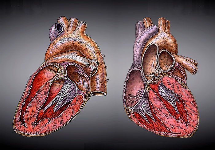 Heart, Herz, Coeur, Corazon, Anatomie, Anatomic Design